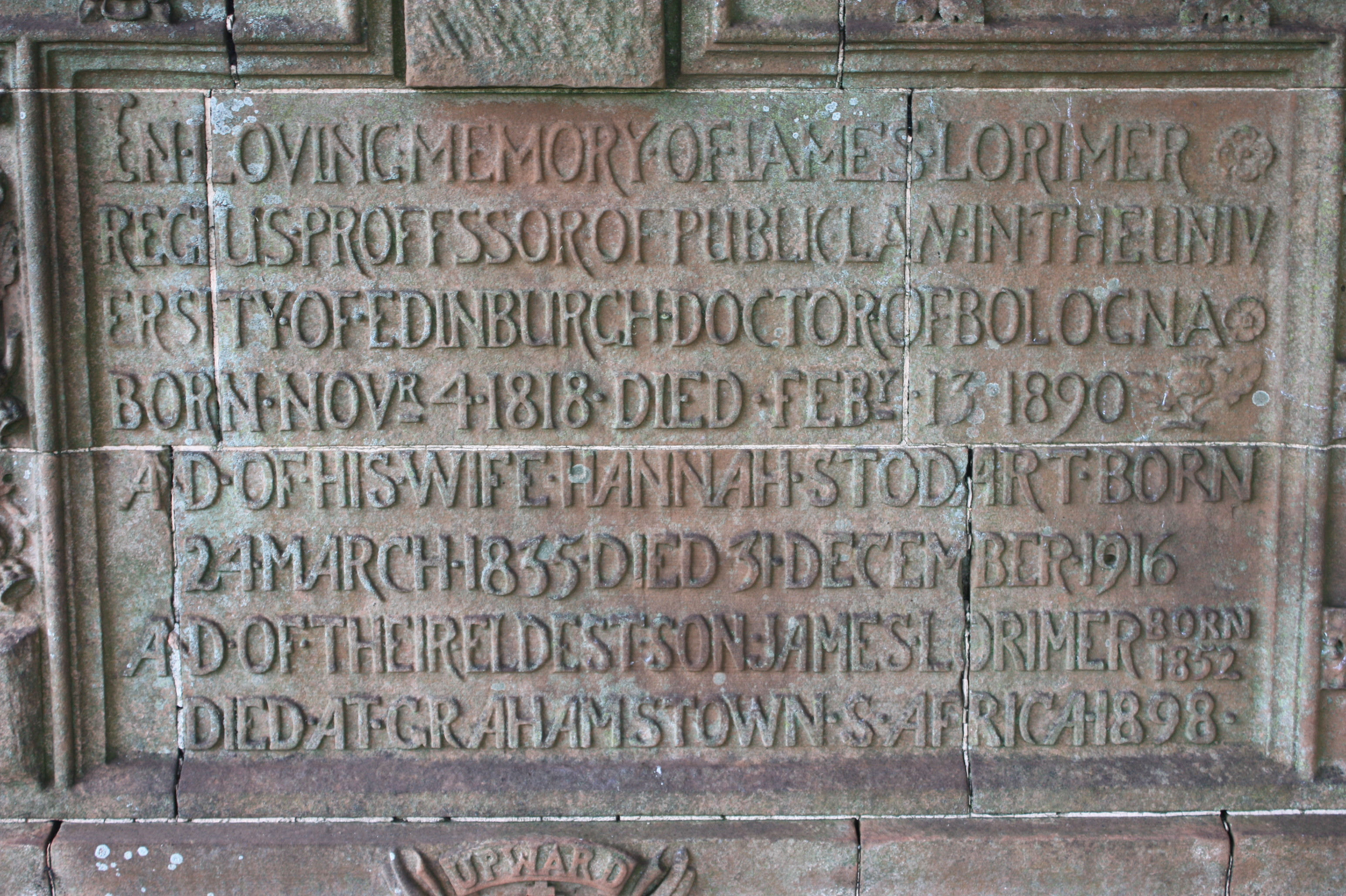 The inscription to Prof James Lorimer; Newburn Churchyard in Fife